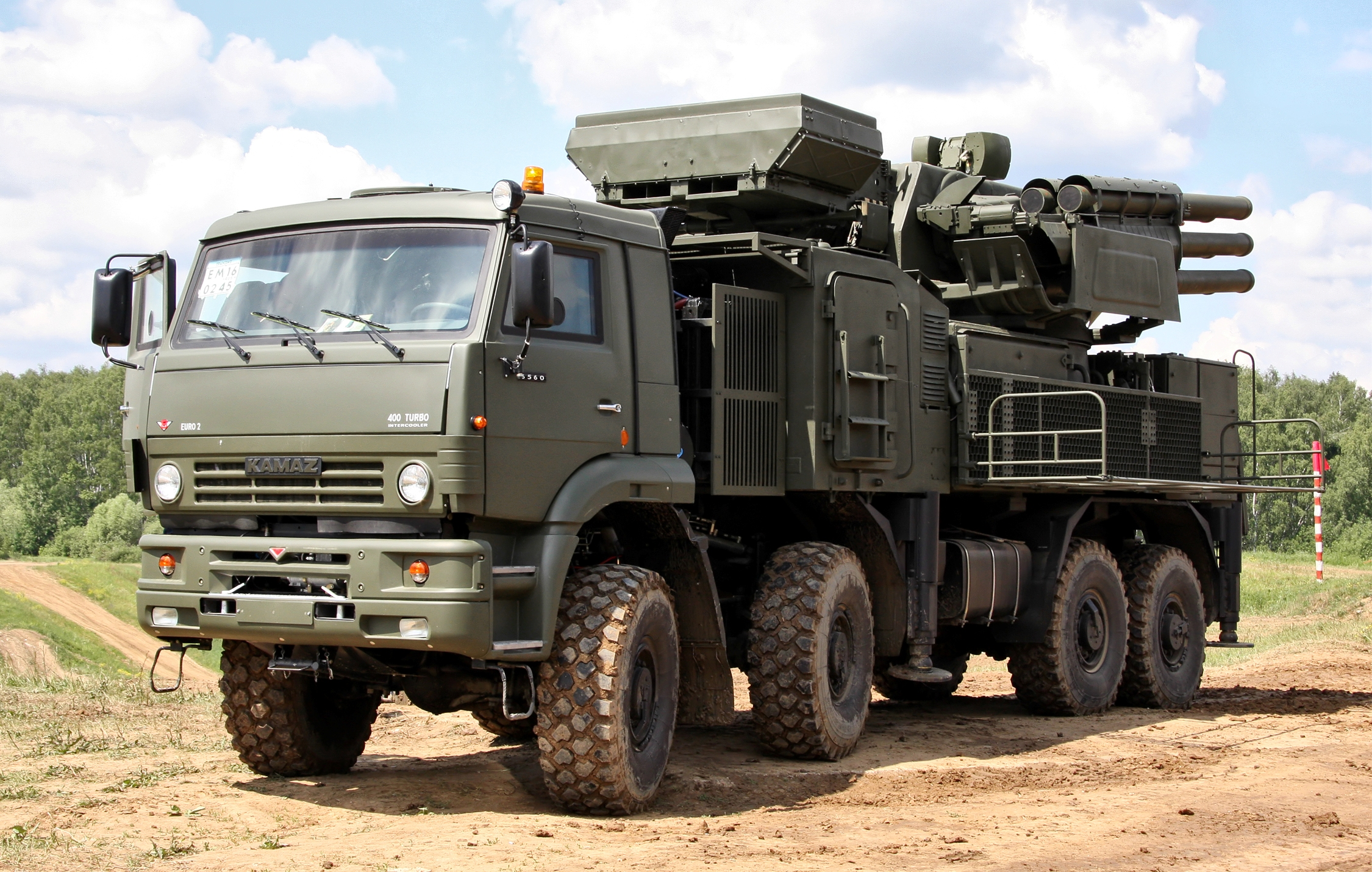 96K6 Pantsir-S1 on KAMAZ-6560 chassis during a demonstration at Bronnitsy test rage.